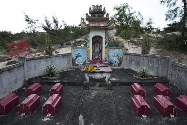 Grave of family with 12 graves of children, family Đỗ Đức Địu, Quảng Bình Province, Vietnam, 2012